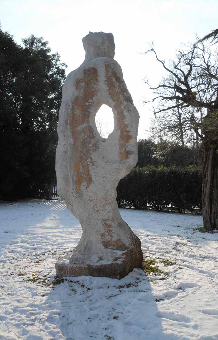 S.Maria_la_Longa,_monumento_dedicato_a_Ungaretti